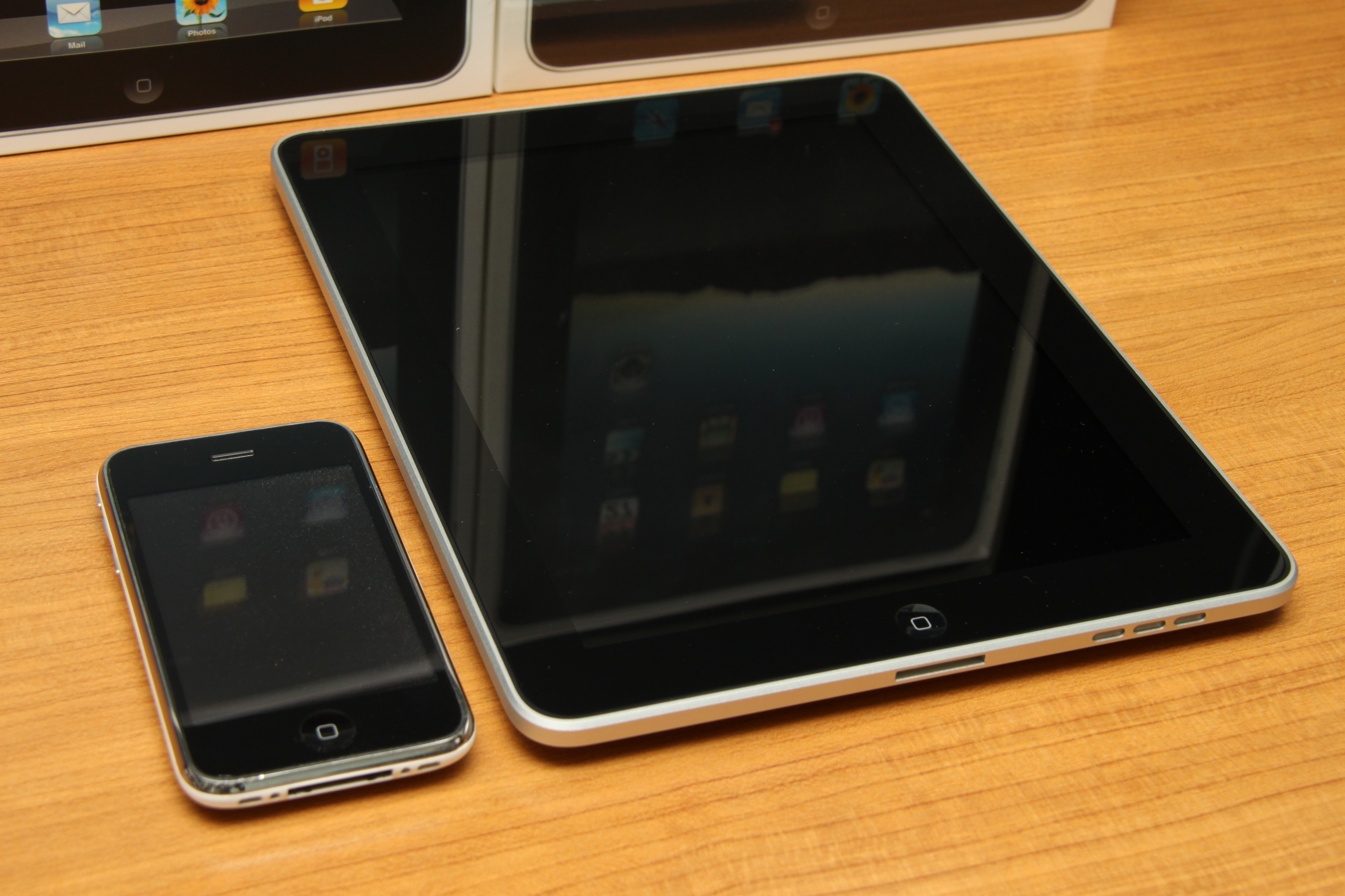 iPad is a Wi-Fi 64 GB version (another one behind is a 16 GB version).